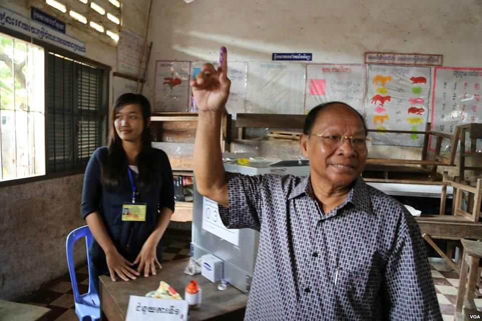 Heng Samrin, president of Cambodia's National Assembly casts his vote in Kampong Cham, July 28, 2013.